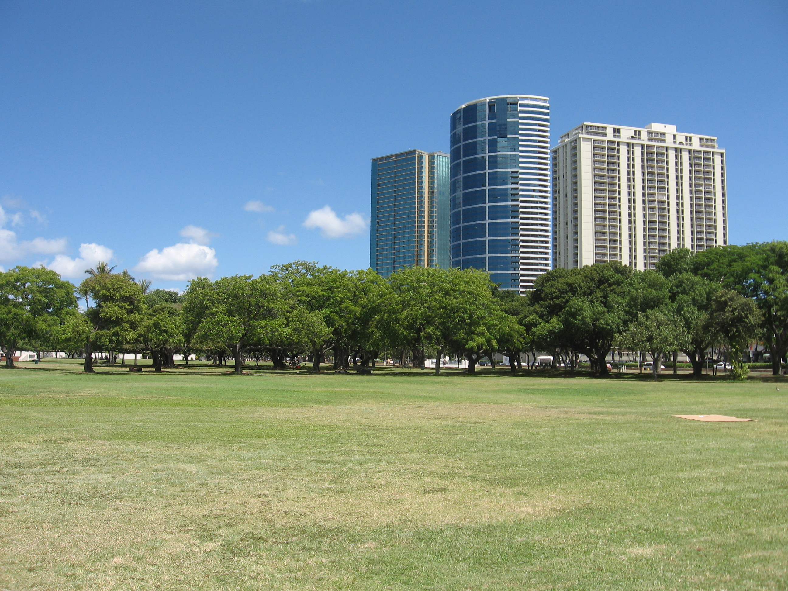 Ala Moana